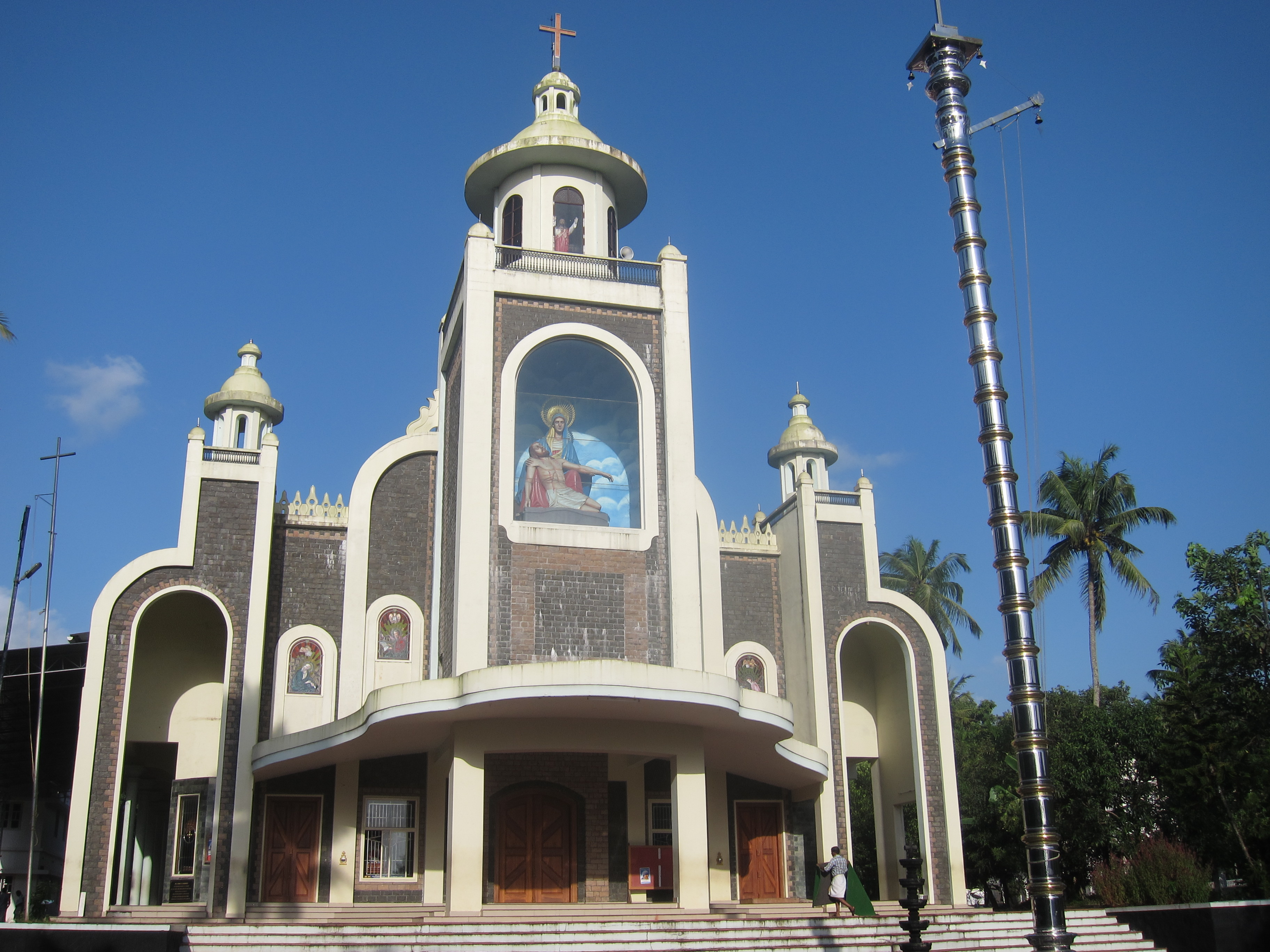 സെന്റ് മേരീസ് ഫോറോന പള്ളി, മൂക്കന്നൂർ - St: Mary's Forane Church, Mookkannur എറണാകുളം - അങ്കമാലി അതിരൂപത സീറോ മലബാർ സഭ